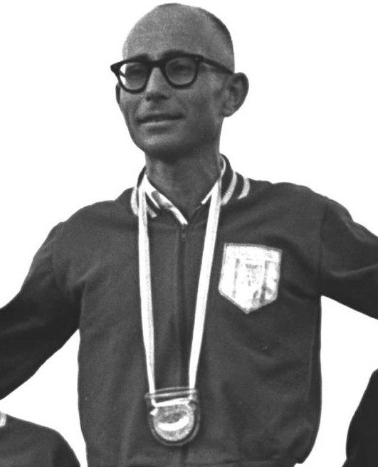 Shaul Ladany, Israely walker, Macabiades 1969